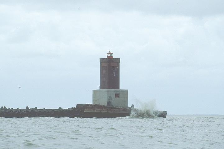 lighthouse on Minsener Oog, Germany.